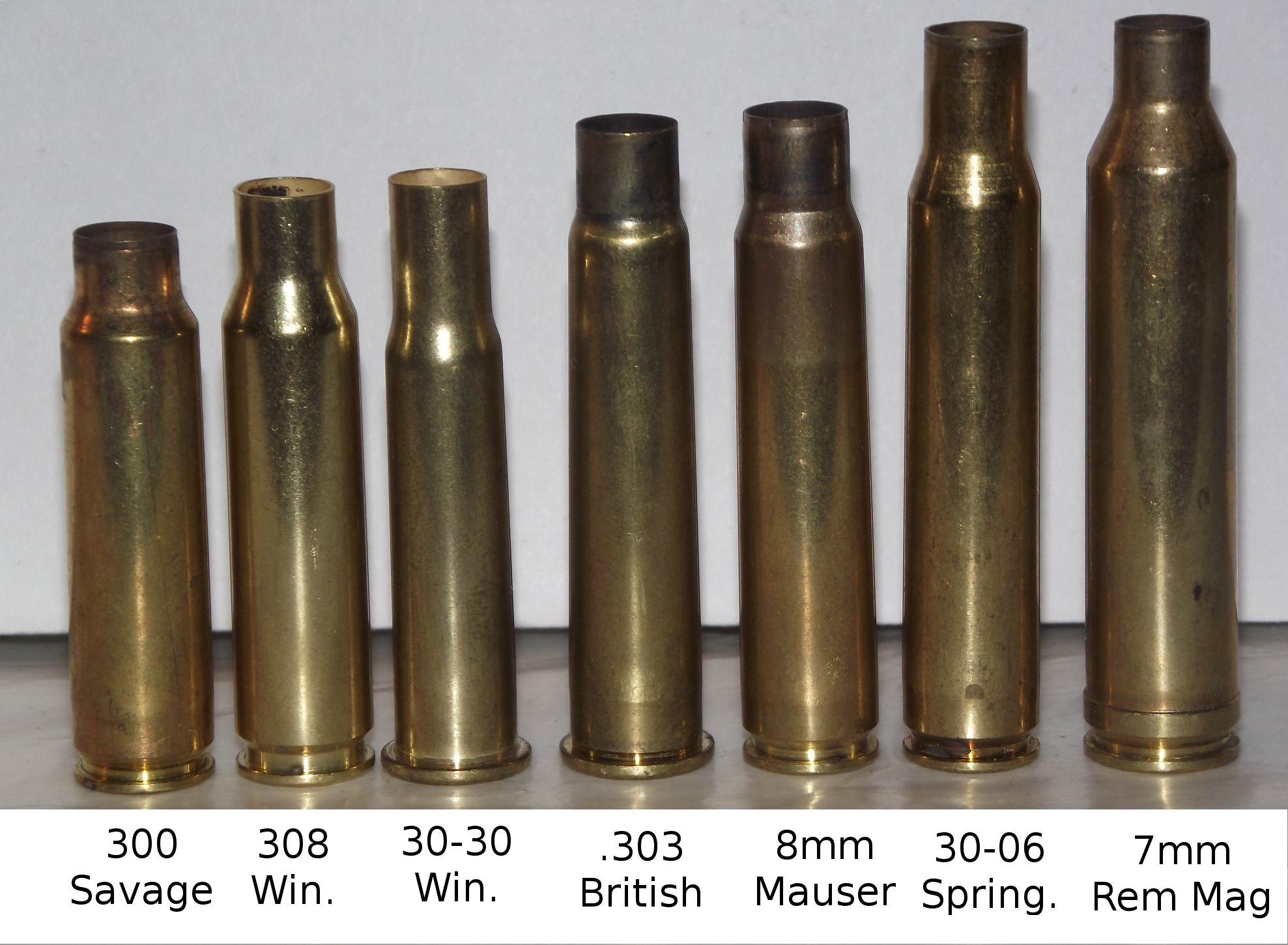 300 Savage, 308 Winchester, 30-30 WCF, 303 British, 8mm Mauser, 30-06 Springfield, 7mm Remington Magnum